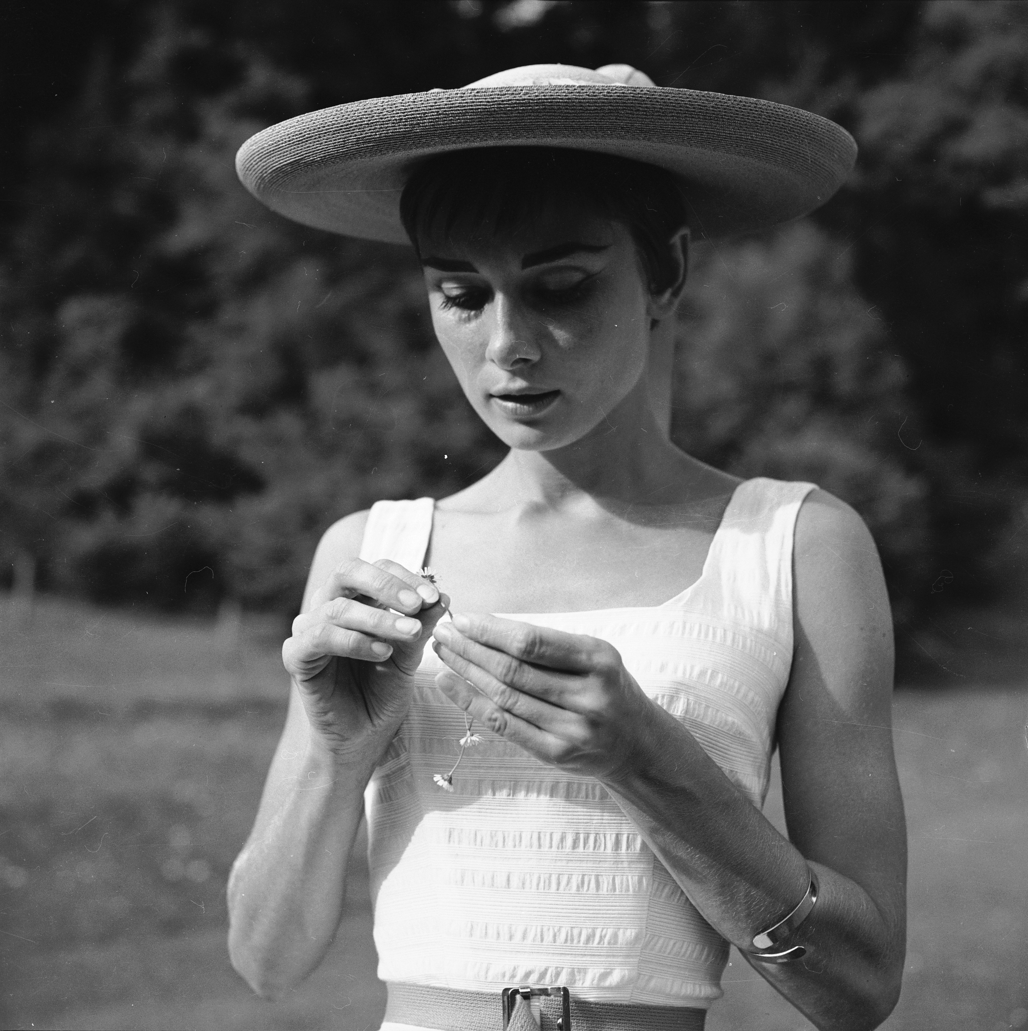 Audrey Hepburn, Bürgenstock, Switzerland